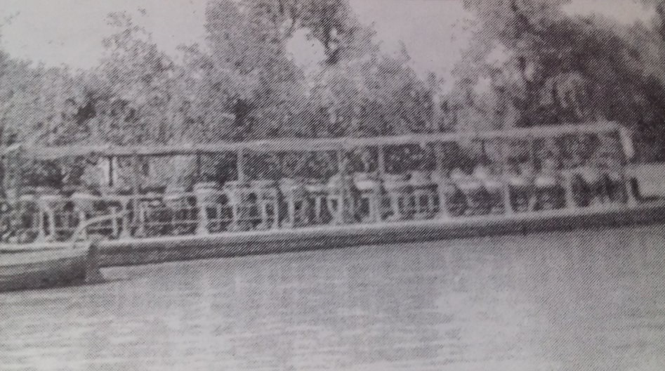 The picture depicts a Romanian minelaying pontoon on the Danube in 1916